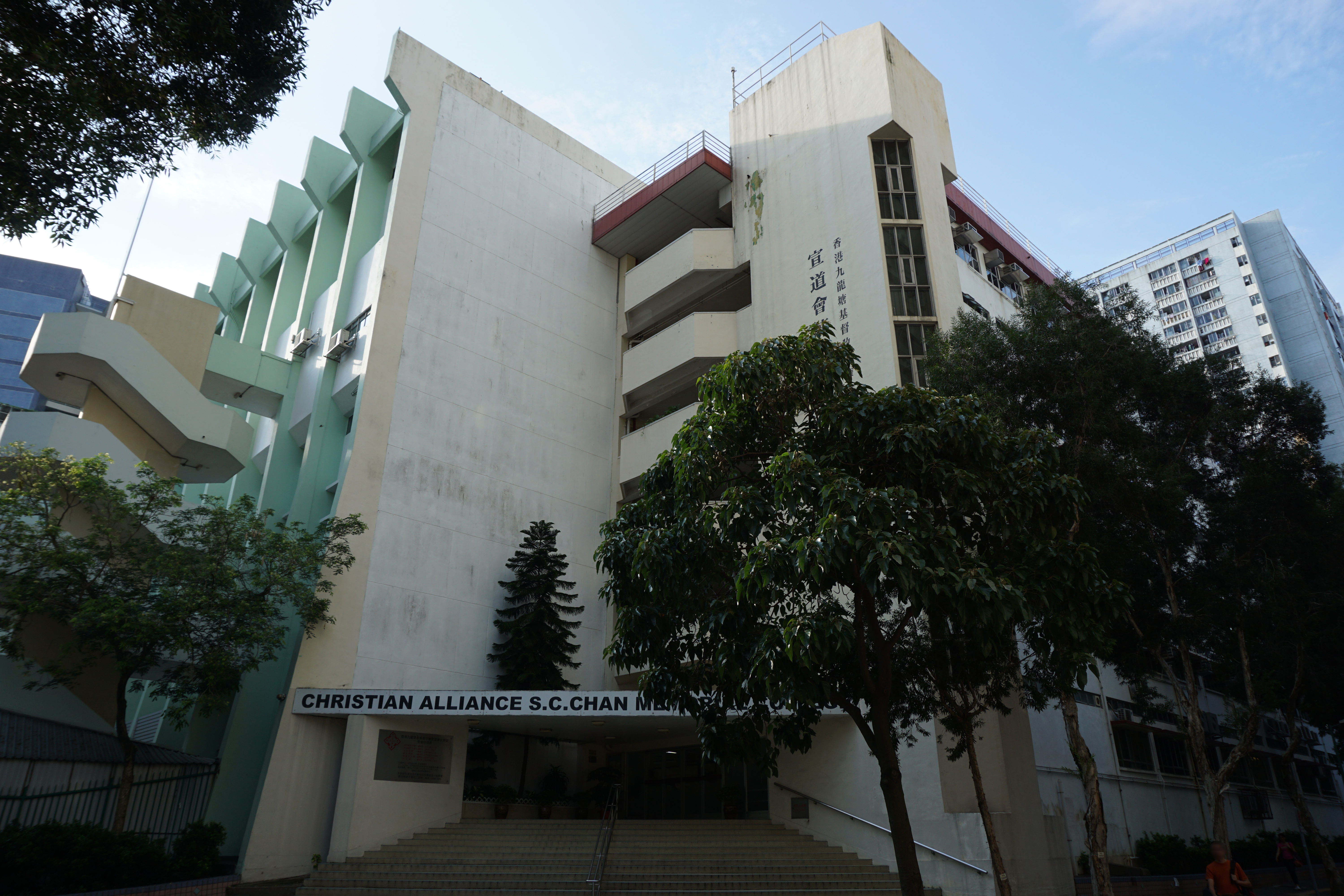 Christian Alliance S C Chan Memorial College in Tuen Mun, Hong Kong.